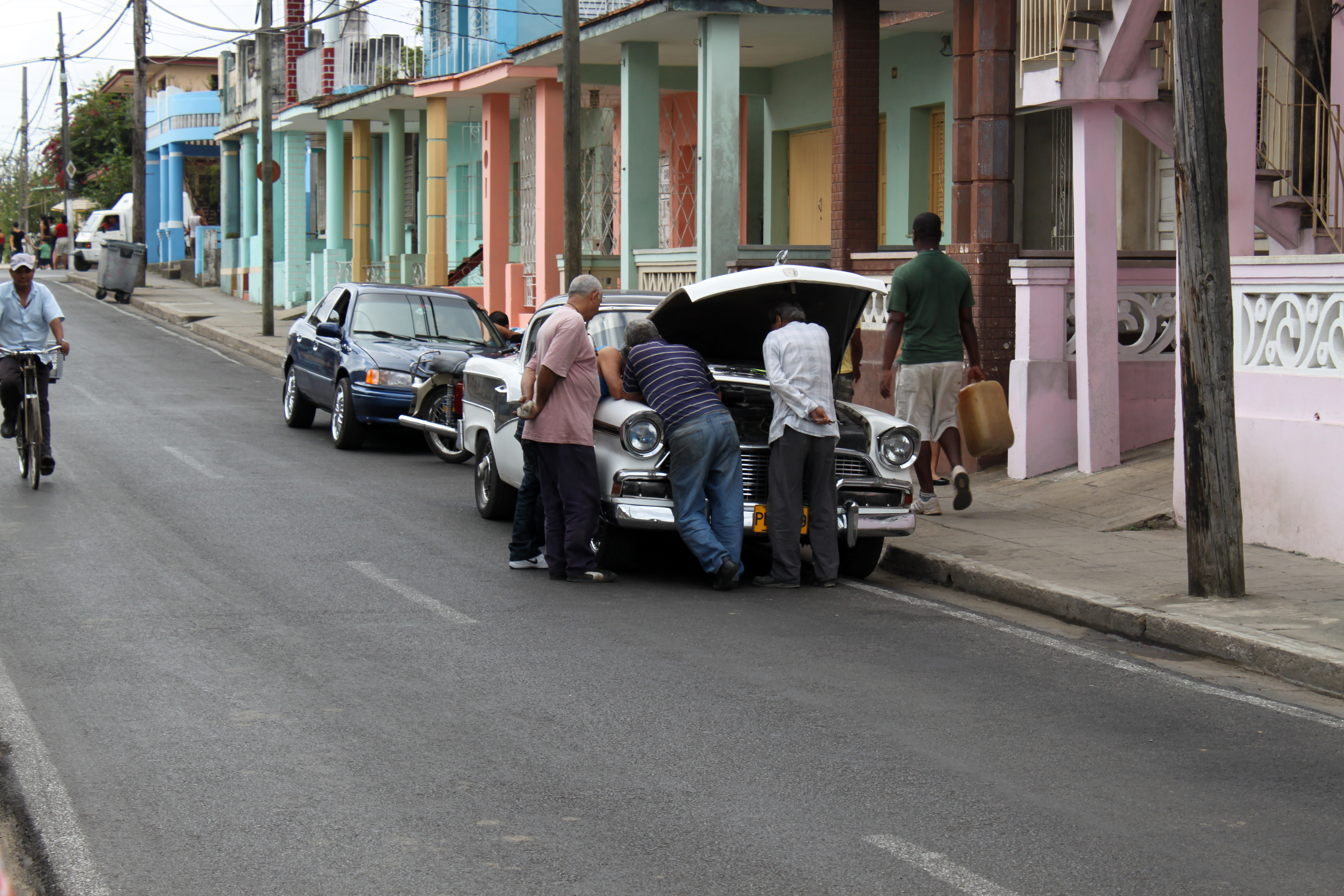 Street scene, city and province of Pinar del Rio, Cuba